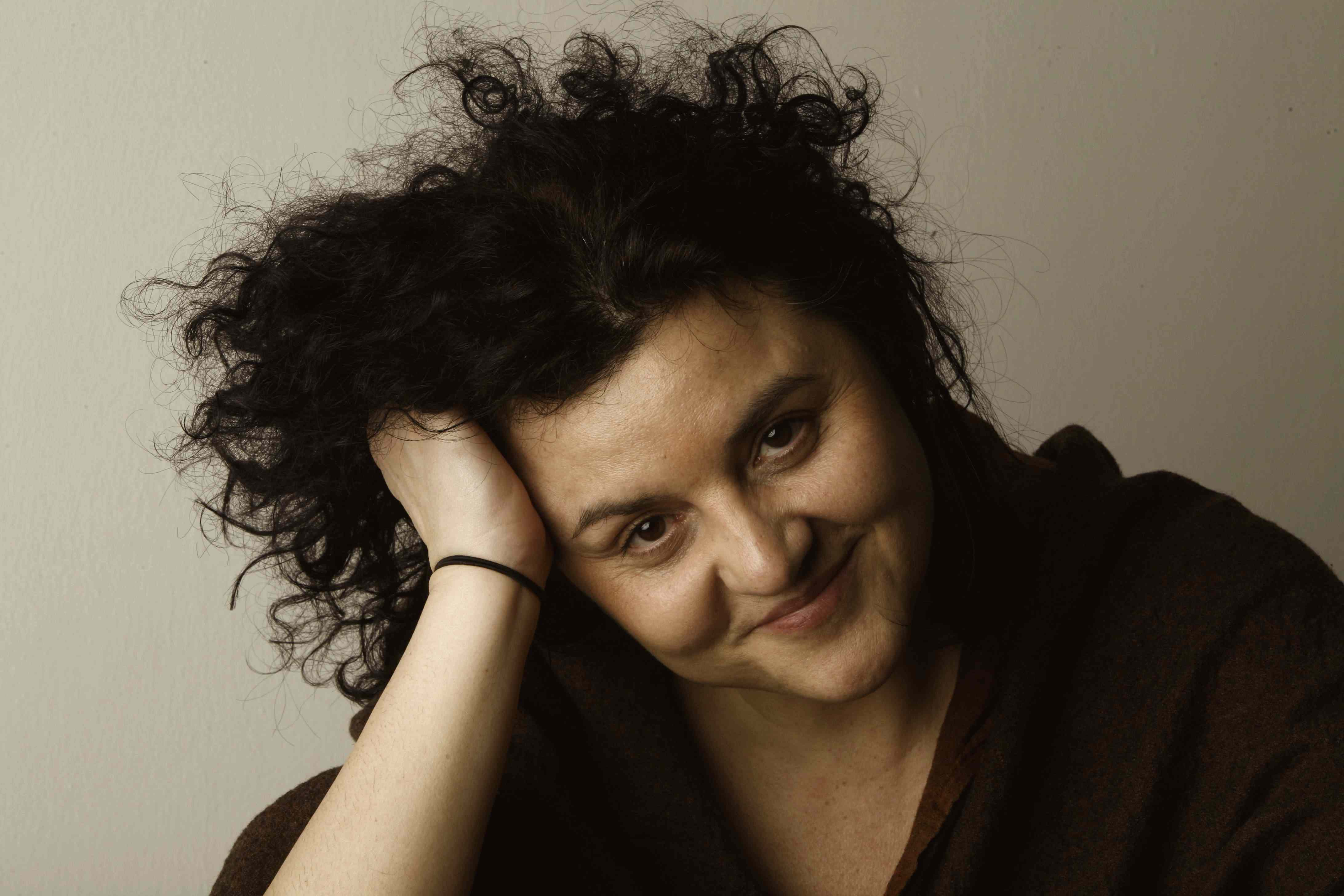 Portrait of the bulgarian journalist, documentary filmmaker and culture manager Diana Ivanova